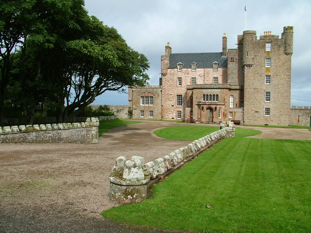 Castle of Mey